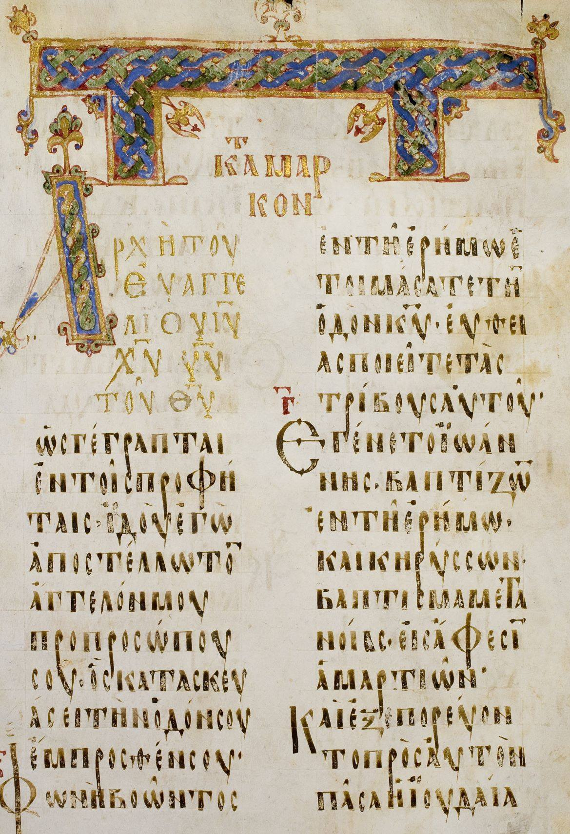 The beginning of the Gospel of Mark in Codex_Boreelianus